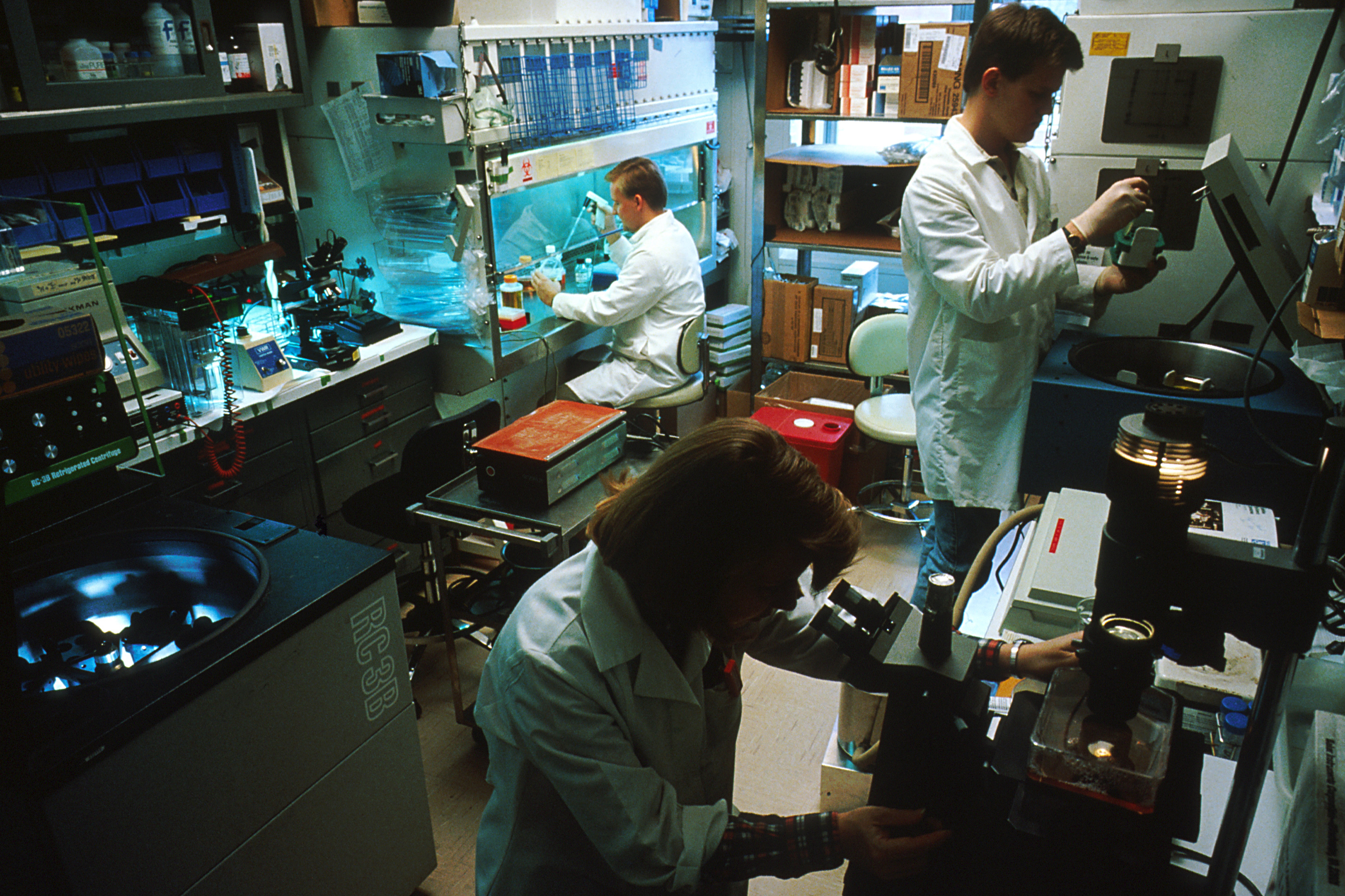 Title Laboratory Description One female and two male and scientists at work in a basic research laboratory. Topics/Categories People -- Health Professional Science and Technology -- Laboratory Techniques/Equipment Type Color, Photo Source National Cancer Institute